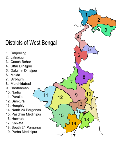 Original summary by creator of base svg file deeptrivia. Districts of West Bengal Based on Exported from the modified svg file to png. Original modifications can be found here [1], since it was not formatted properly after modifications. Modifications by User:Antorjal: Midnapore District has been bifurcated to show both Paschim Medinipur and Purba Medinipur. Numbered and listed districts per comments at peer-review. Font size reduced for clarity, since the districts are now listed. Many of the spellings did not conform to linked articles in the text. All spellings now match the West Bengal article spellings.